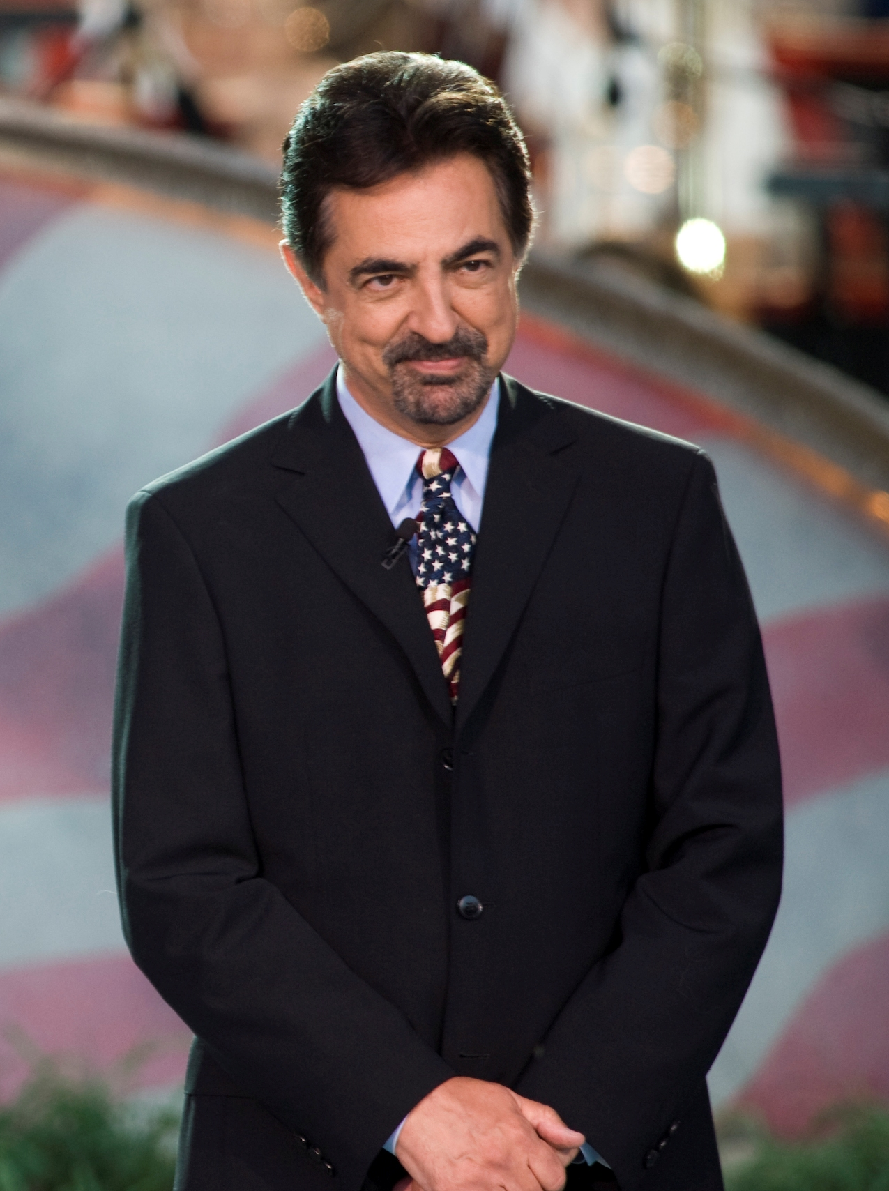 Joe Mantegna address the audience during the National Memorial Day Concert in Washington, D.C., May 24, 2009.